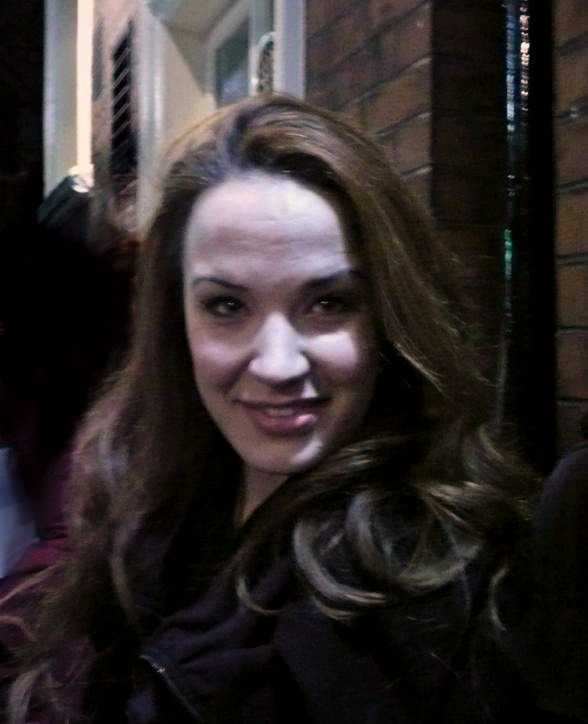 Sierra Boggess outside Queen's Theatre in London